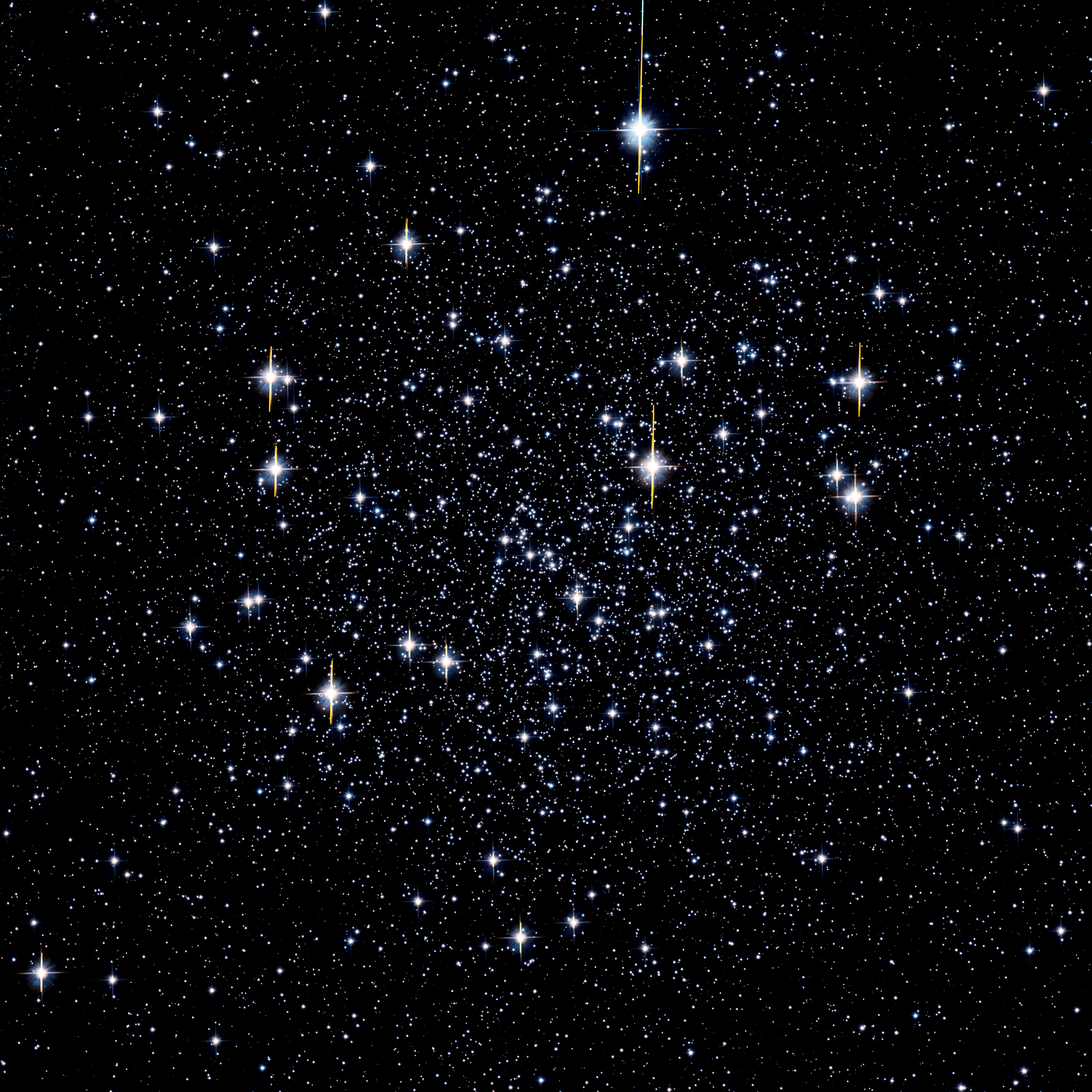 Color rendering is done by by Aladin-software (2000A&AS..143...33B.)